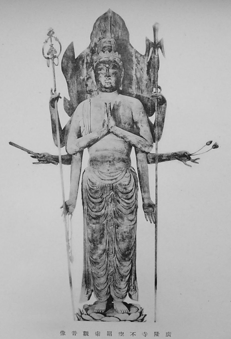 Fukū Kensaku Kannon (Amoghapāśa), coloured wood(faded), total 313cm height, Formerly enshrined in the Lecture Hall, about ACE800, Koryuji Treasure House, Kōryū-ji, Kyoto Japan